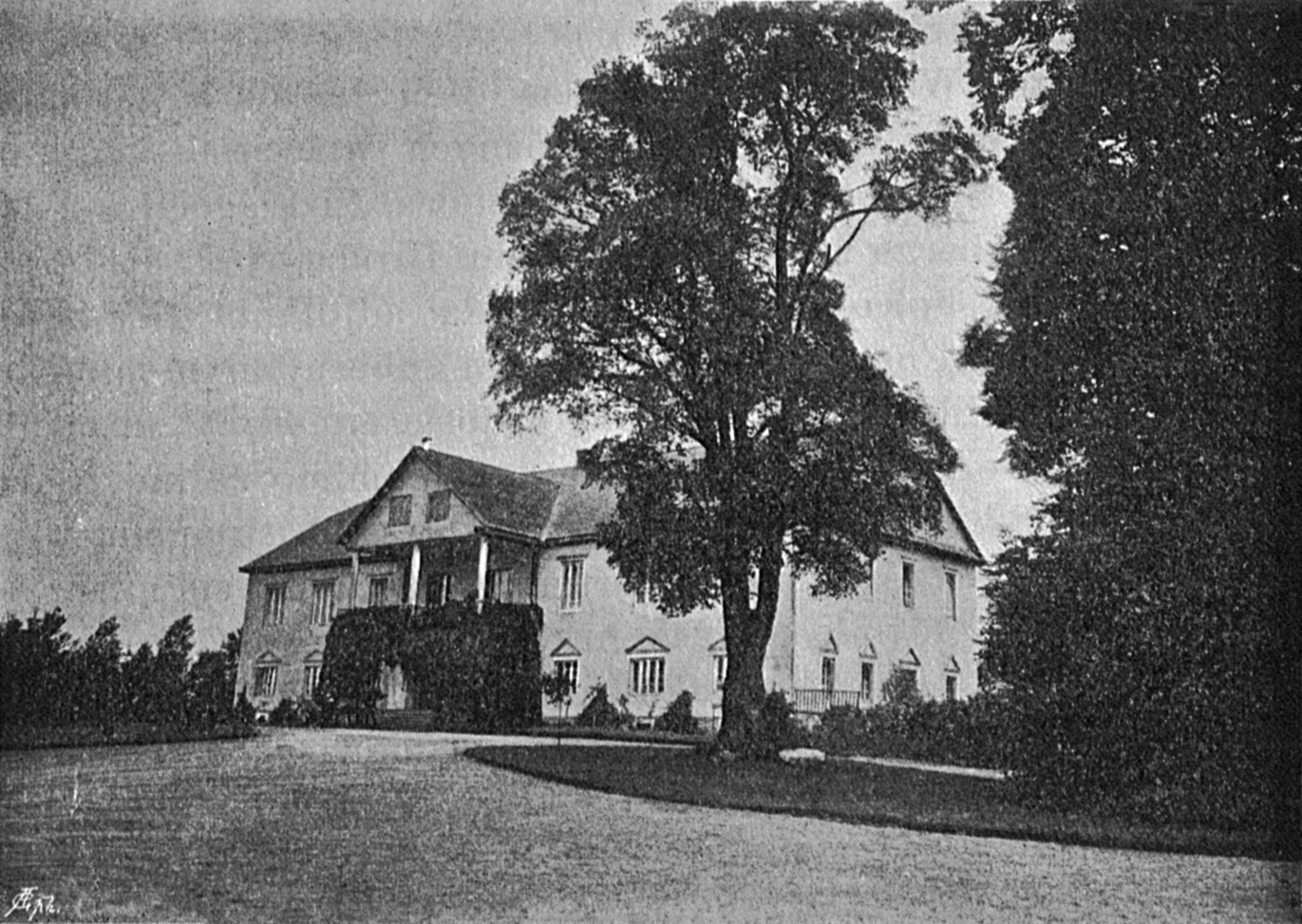 Korvin-Mileŭski Manor in Łazduny